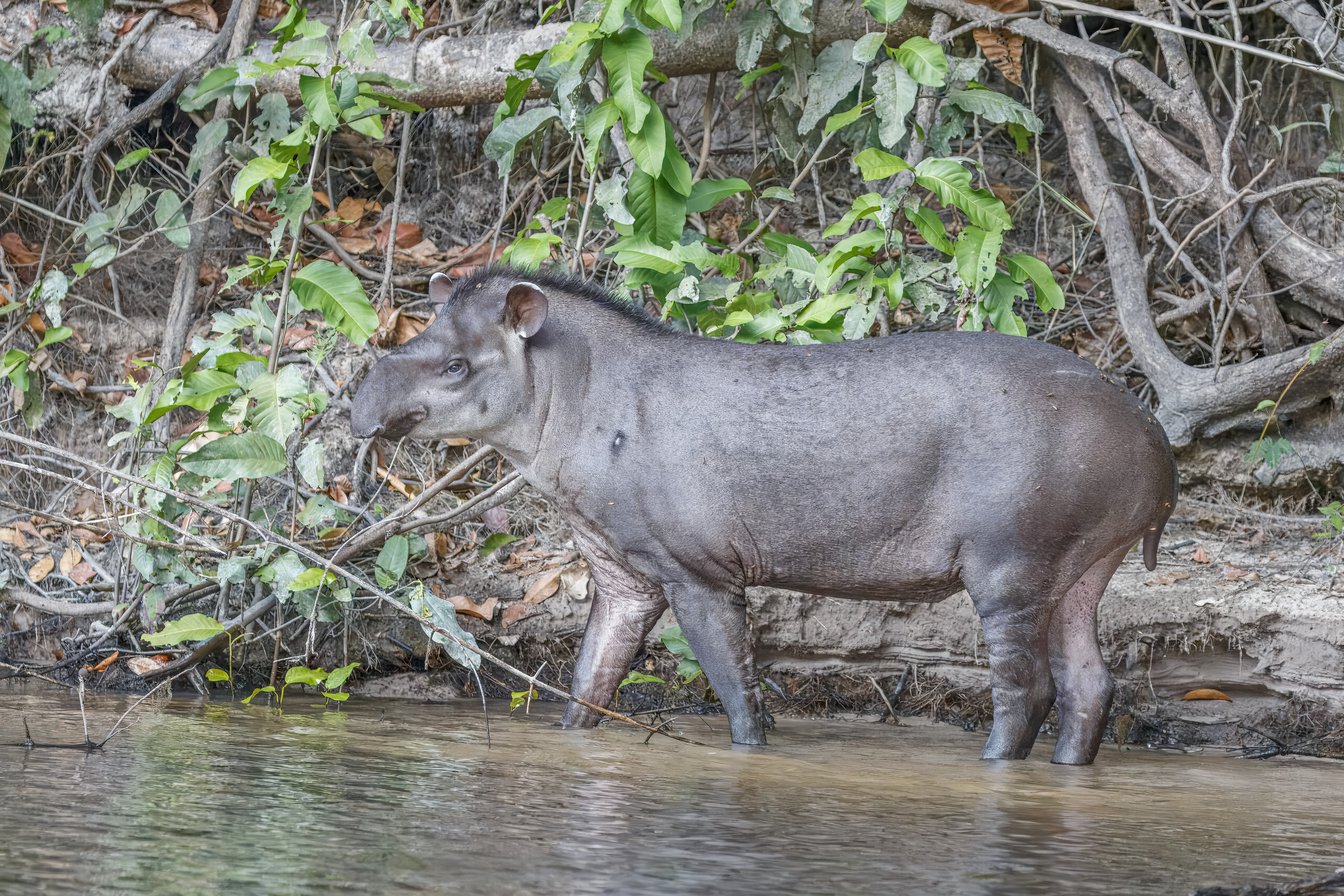 South American tapir (Tapirus terrestris), Cristalino River, Southern Amazon, Brazil